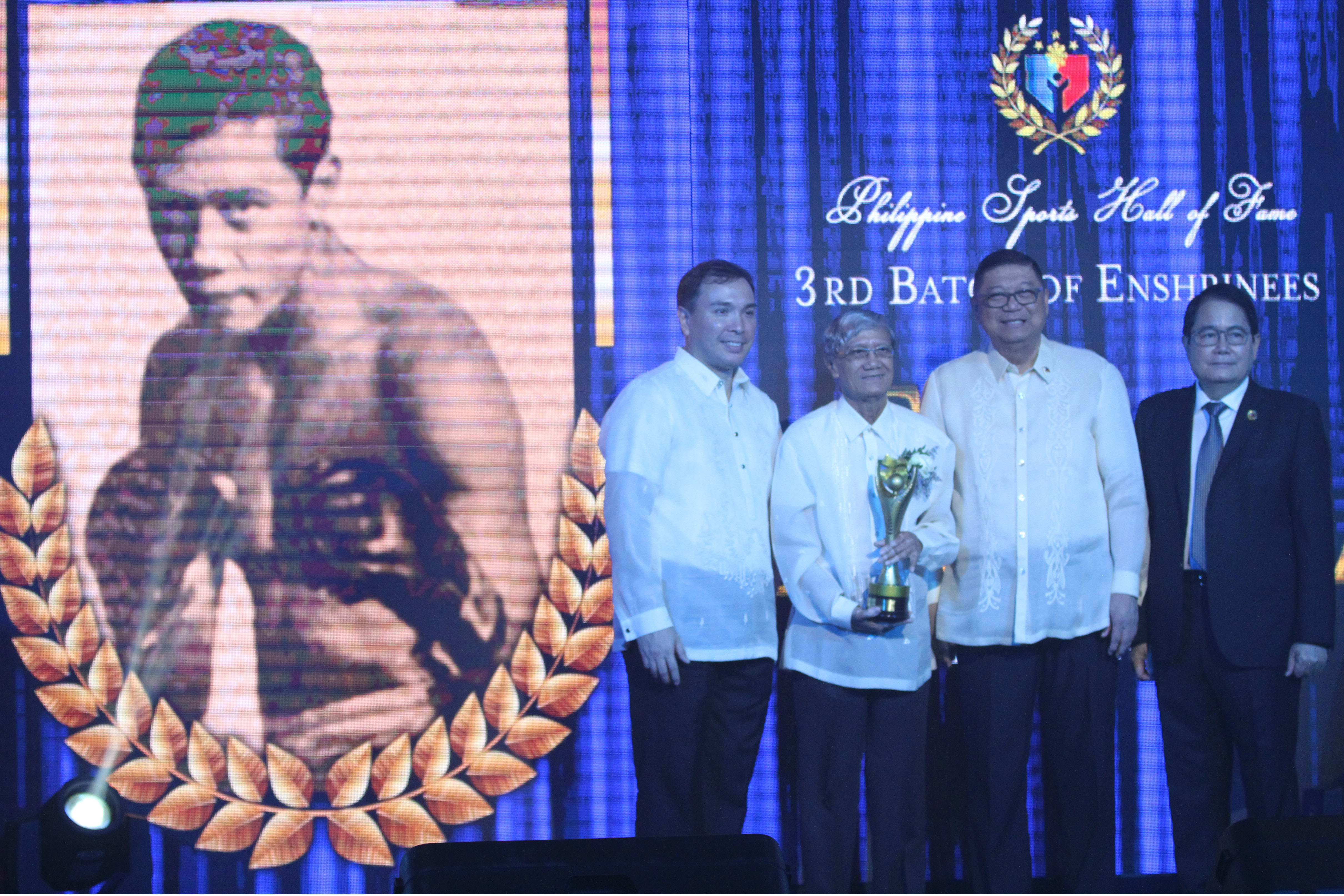 Boxer Erbito Salavarria (2nd from left) was among the third batch of outstanding athletes enshrined in the Philippine Sports Commission (PSC) Hall of Fame during the ceremony at the Philippine International Convention Center in Pasay City on Thursday (November 22, 2018). Salavarria captured the World Boxing Council and lineal flyweight title in 1970 and won the World Boxing Association flyweight title in 1975. From left are Games and Amusements Board (GAB) Chairman Abraham Mitra, Salavarria, PSC Chairman William Ramirez and Philippine Olympic Committee President Ricky Vargas.